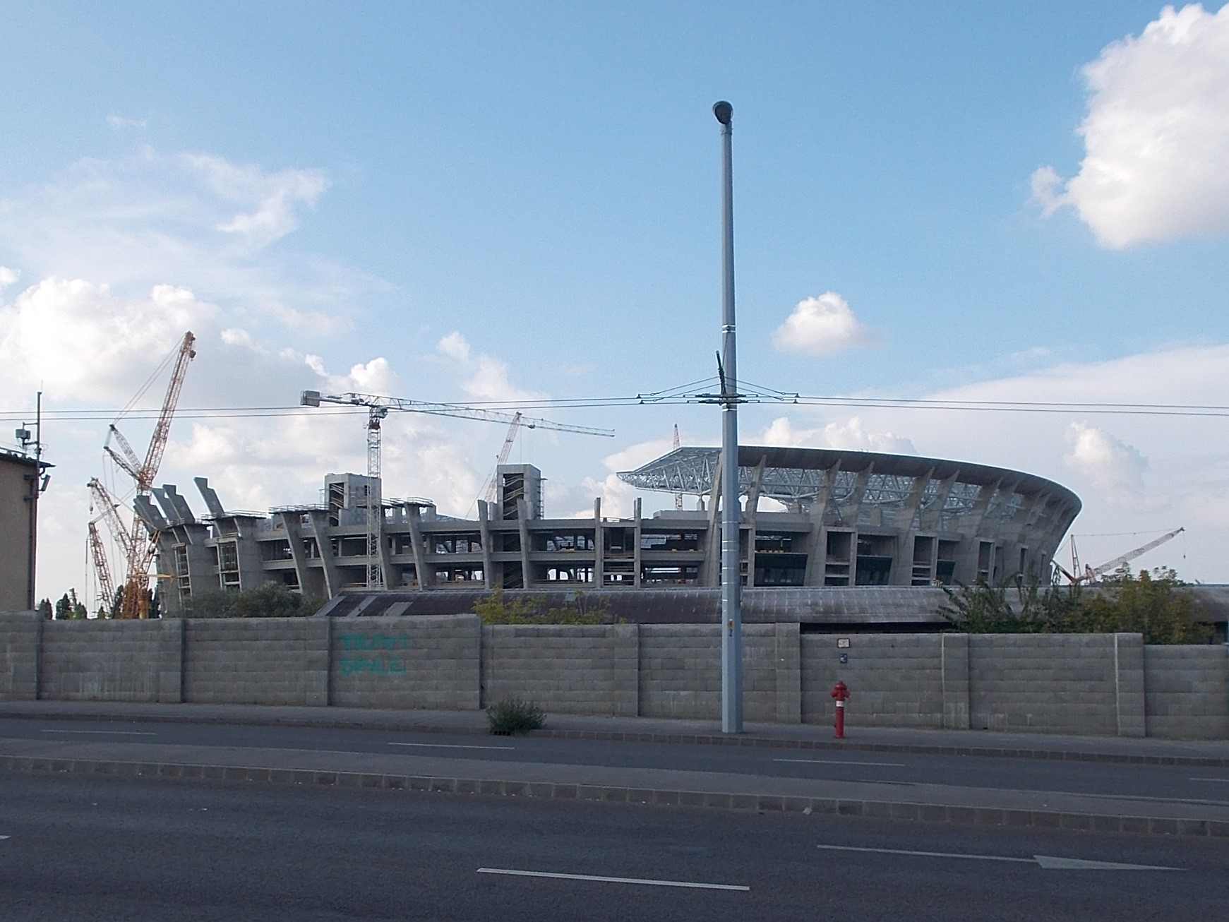 Ferenc Puskás Stadium (2019) from Kerepes út, Százados neighborhood, Józsefváros district, Budapest.